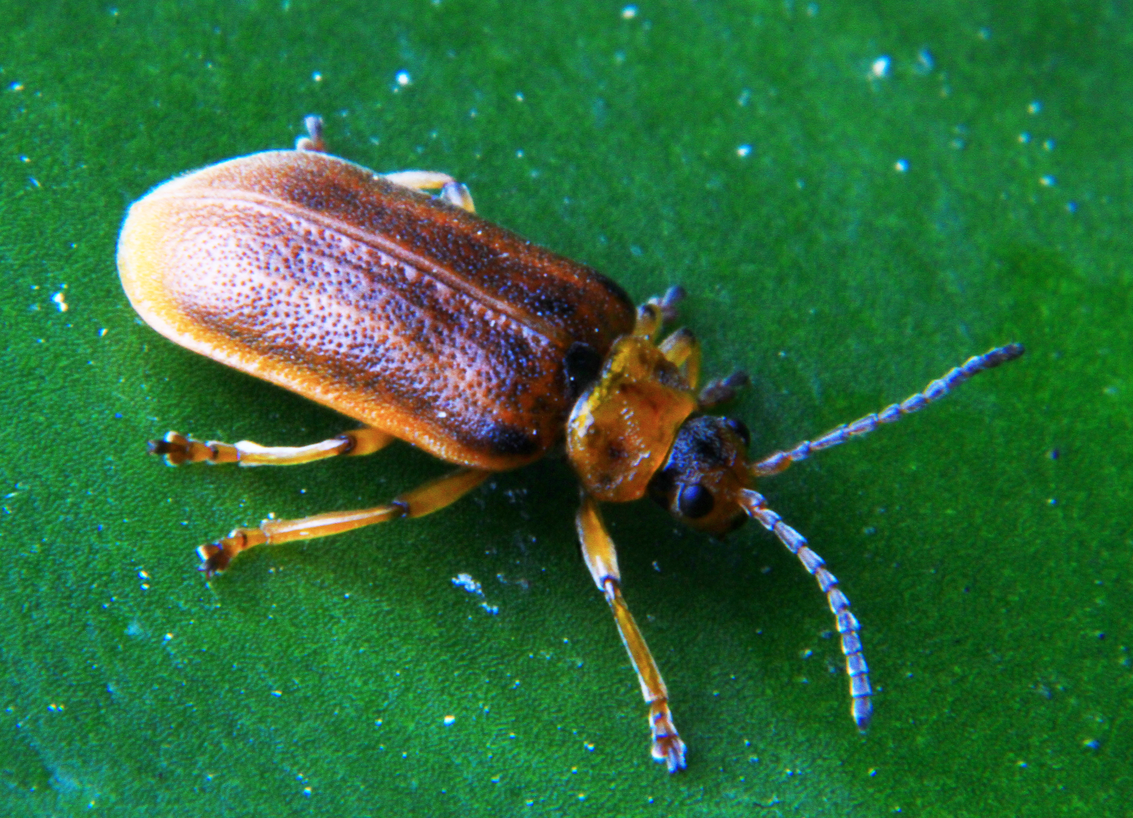 Waterlily leaf beetle (Galerucella nymphaeae) from the Osterseen Lakes, Bavaria, Germany